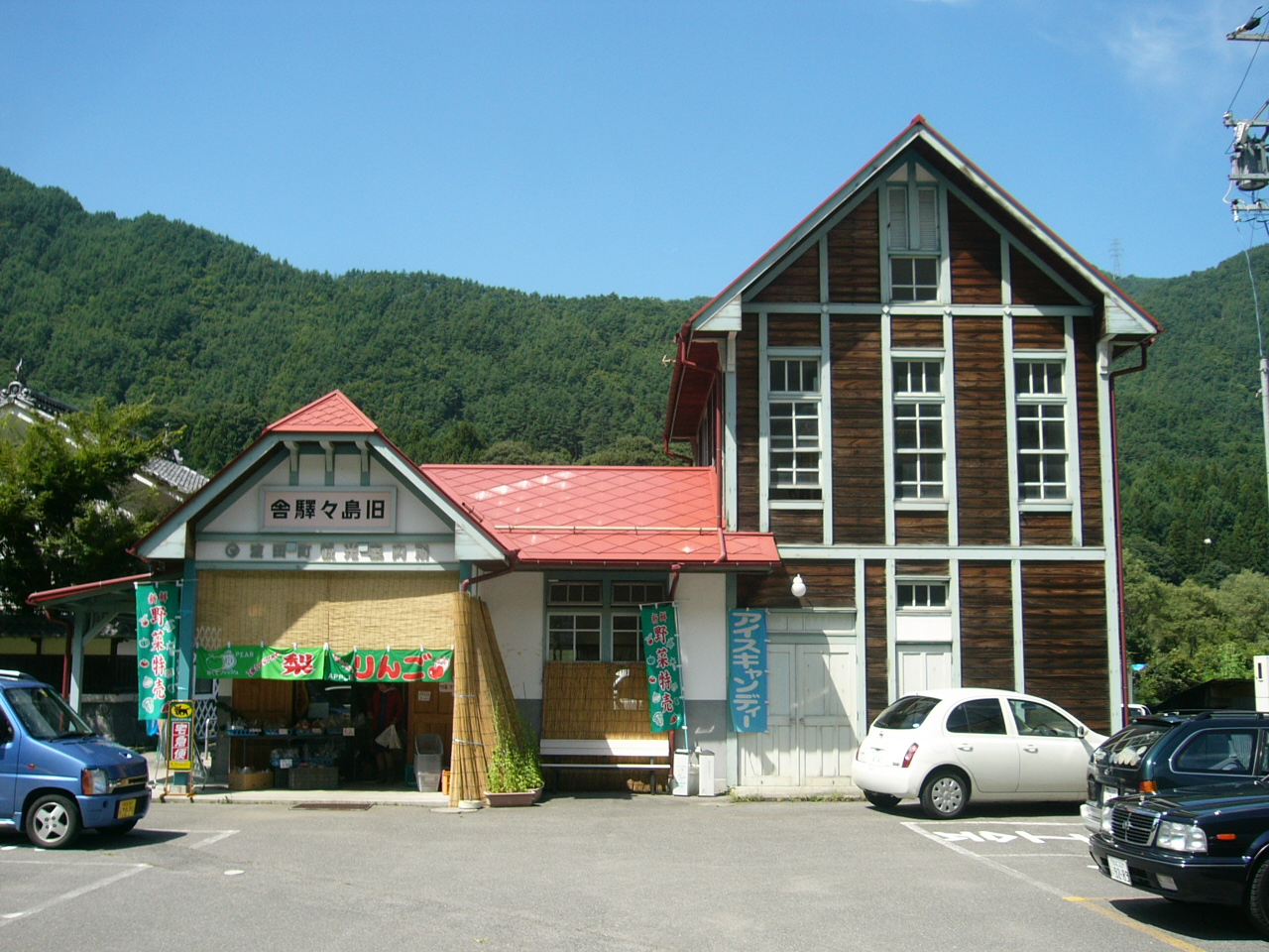 OLD Shimashima Station (Hata Town tourist information center)